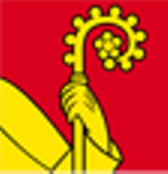 Flag of Bischofszell, Canton of Thurgau, SwitzerlandEsperanto: Flago de Bischofszell, Kantono Turgovio, Svislando